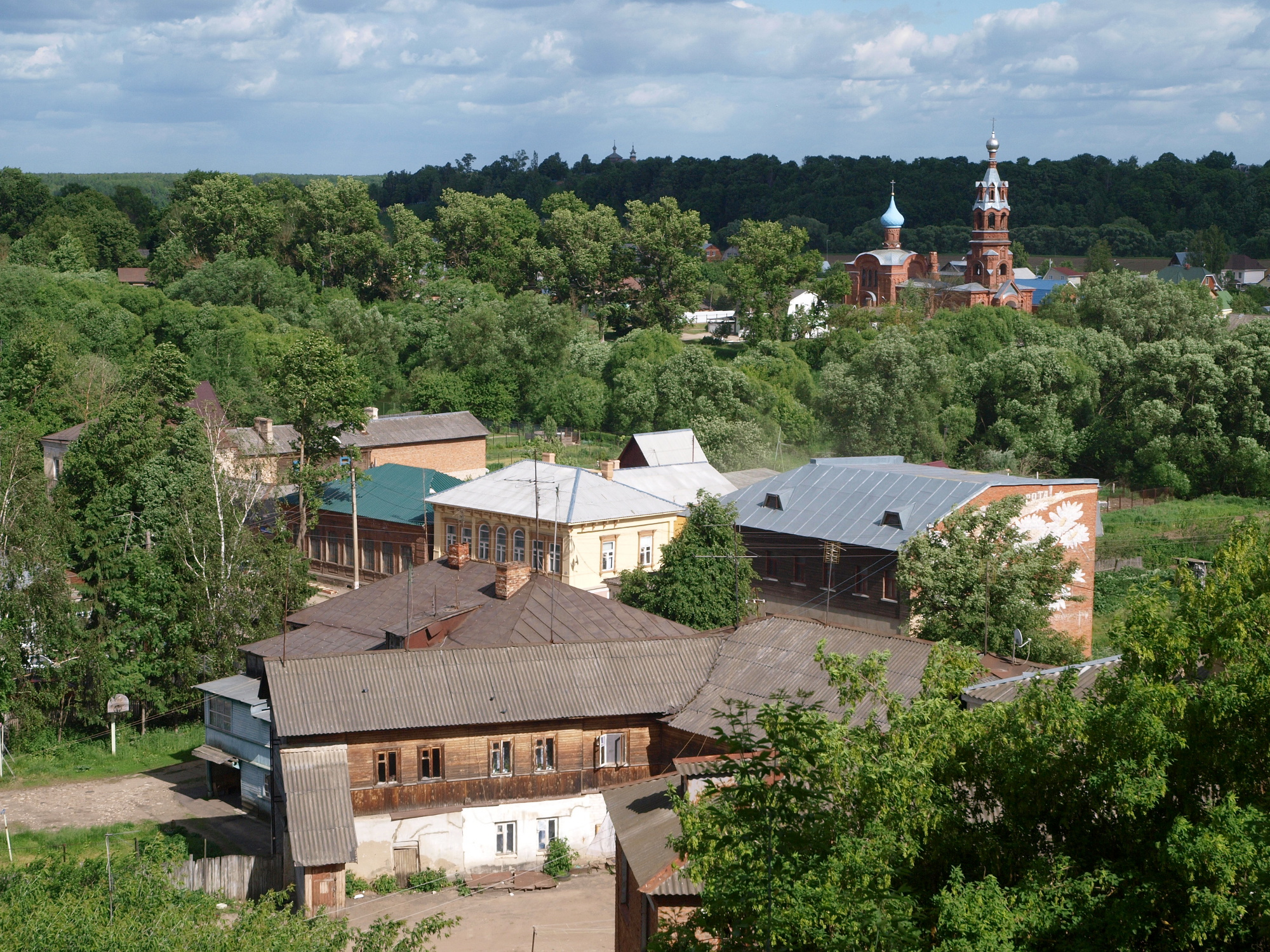 Borovsk - view from Kremlin hill to north-east (old town baths just below).